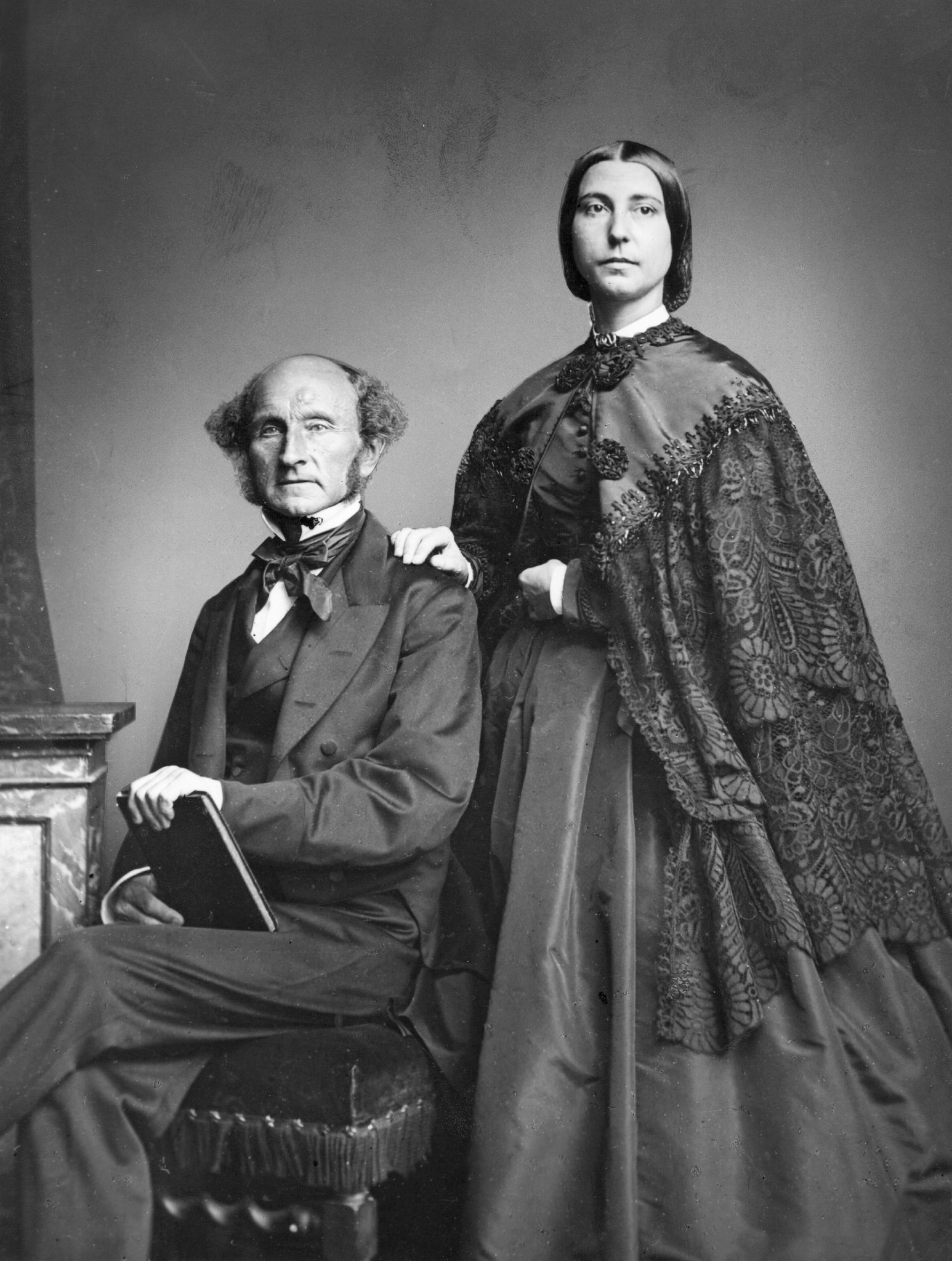 The philosopher John Stuart Mill and Helen Taylor , daughter of Harriet Taylor.